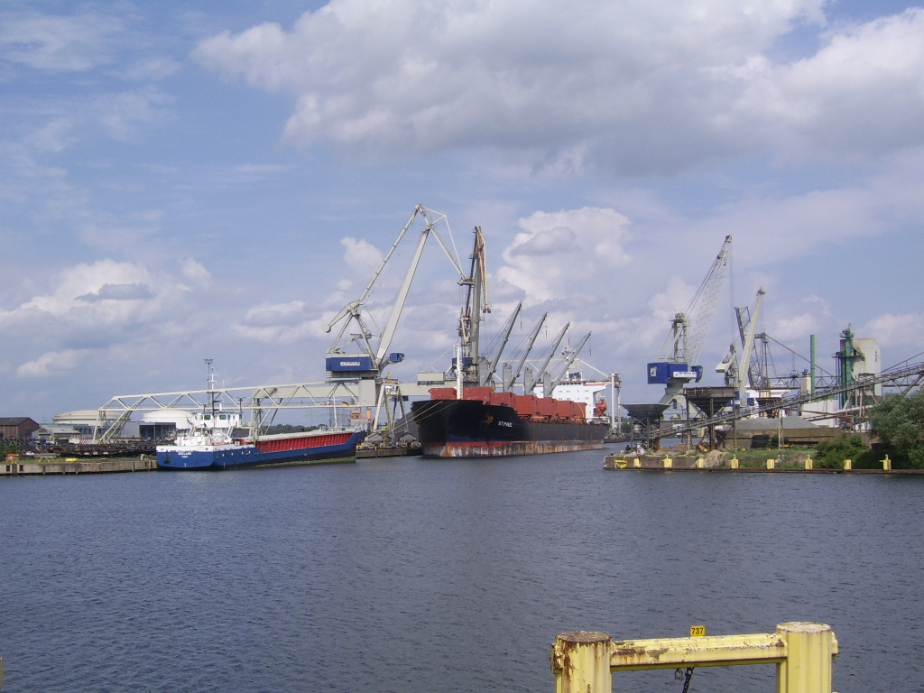 Ships in the industrial port of Bremen, Germany